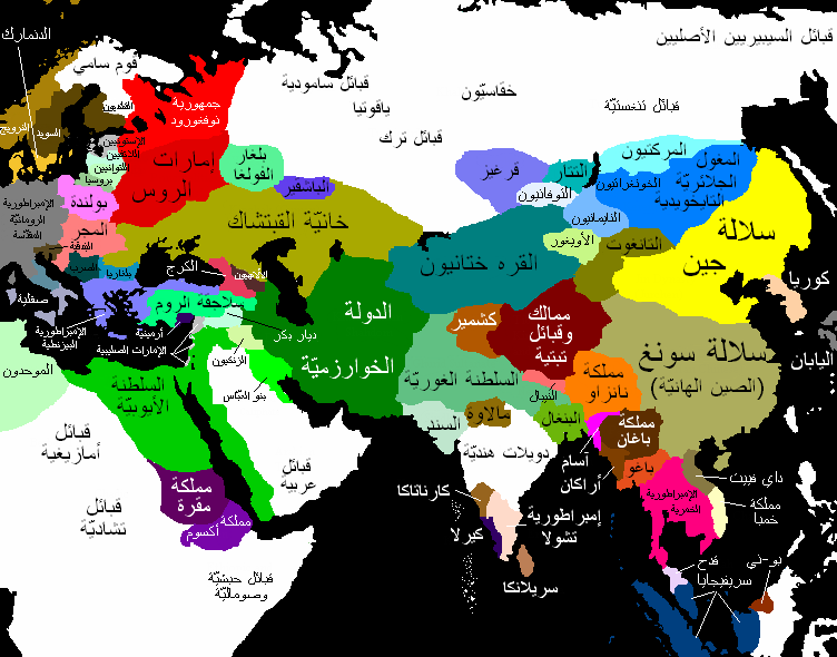 Eurasia before the mongolian invasion. Source unknown. Use only in conjunction with references. Here are some published maps of 13th-century Eurasia that can be used as an actual reference: old Russian school atlas(?)